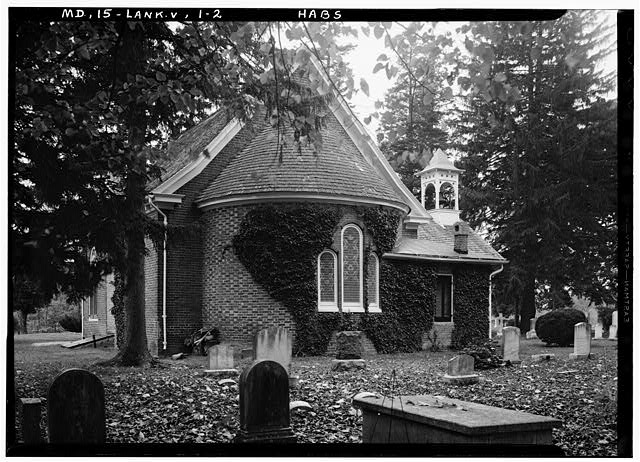 St. Paul's Episcopal Church, Sandy Bottom Road, Sandy Bottom, Kent County, MD